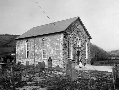 1 negative : glass, dry plate, b&w ; 16.5 x 21.5 cm.